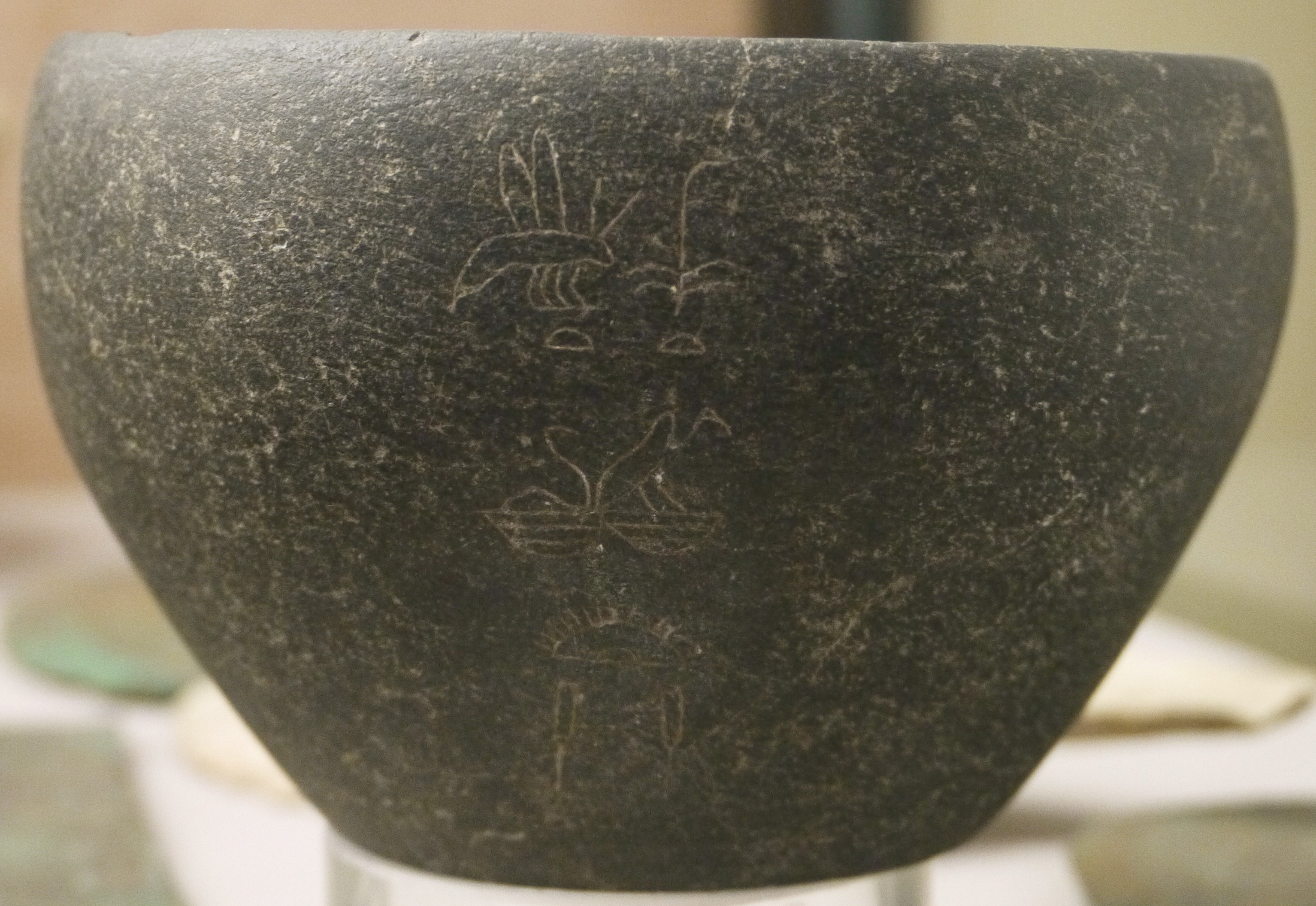 Stone vase of Khasekhemwy, Musee National des Antiquites, St Germain en Laye.